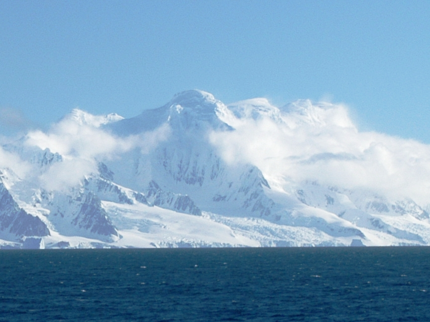 Mount Foster, Smith Island, South Shetland Islands. Derivative work, fragment of the photo of Smith Island, Antarctica, taken from deck of R/V Lawrence M. Gould by Cfrohlich, Cliff Frohlich, Univ. Texas Austin